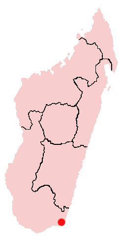 Tolanaro, Madagascar Location Map